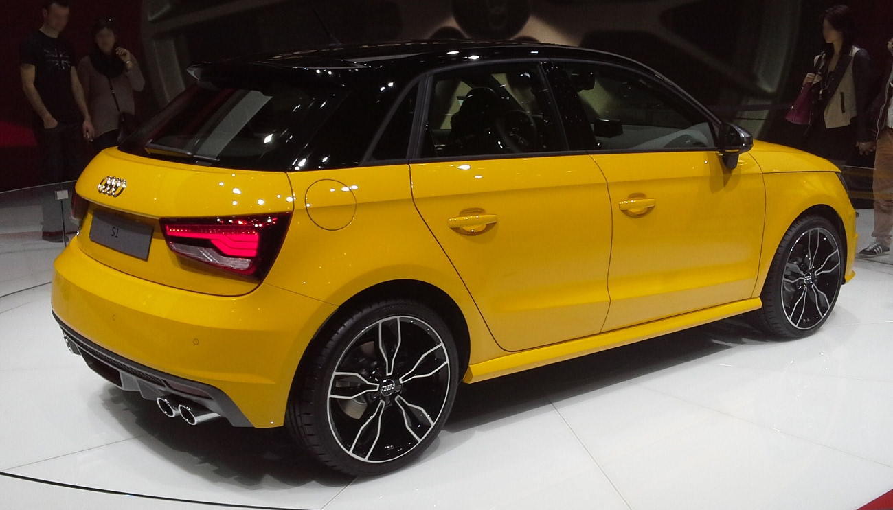 Audi S1 photographed at the 2014 Geneva Motor Show, Geneva, Switzerland.